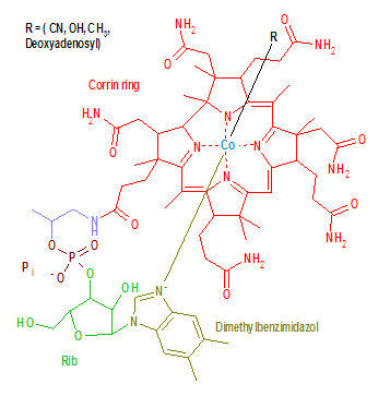 The structure of Vitamin B12